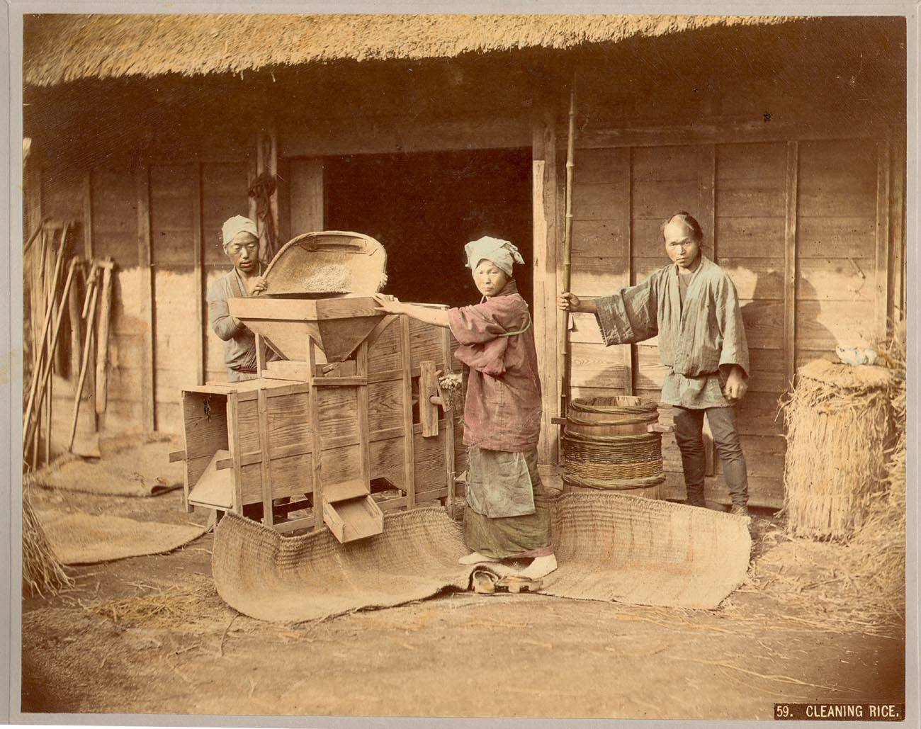 Albumen - Hand Colored